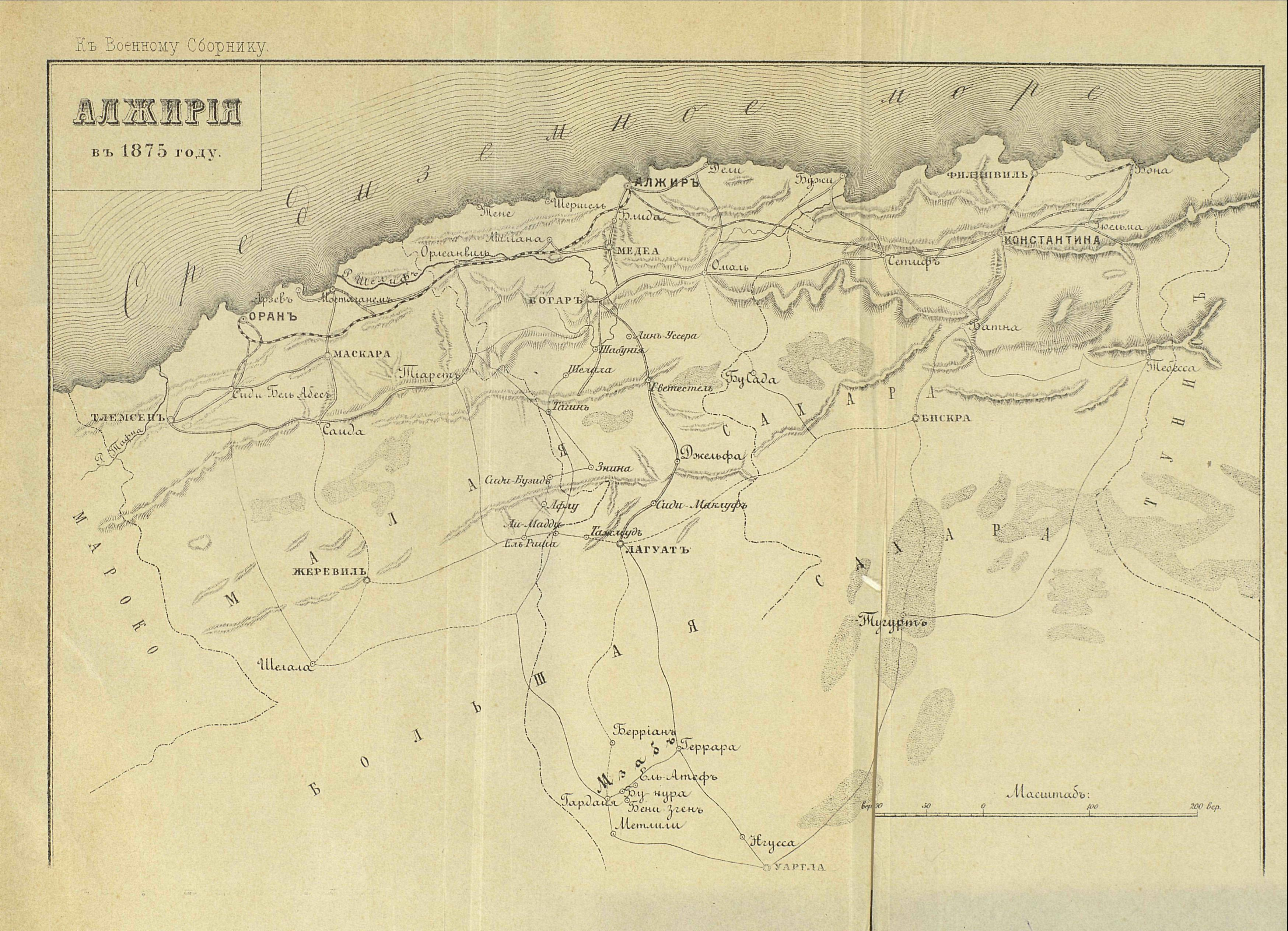 Algerian map of 1875 (Captain Kuropatkin)